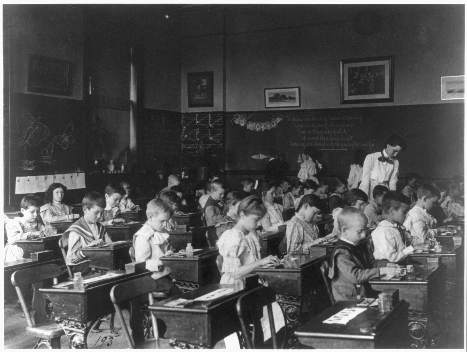 A class in watercolor, 2nd Division